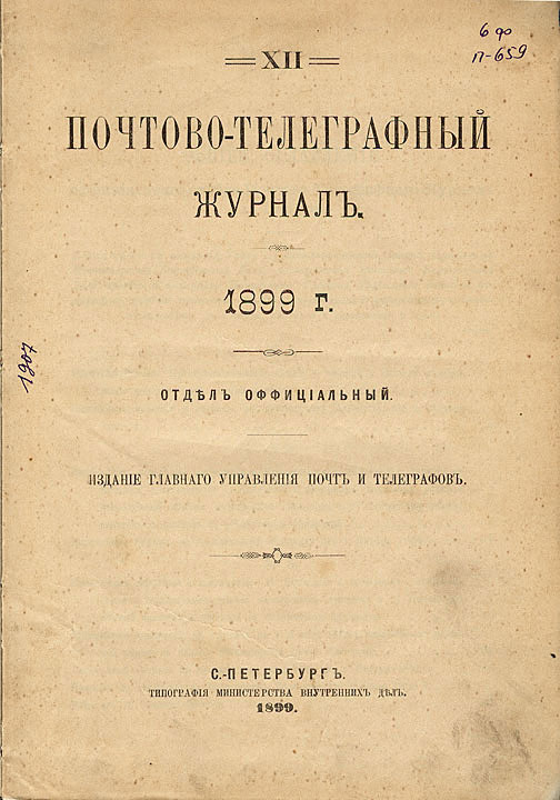 Cover of an early Russian postal magazine "Pochtovo-Telegrafnyi Zhurnal" ("Post and Telegraph Journal"), 1899, Vol. 12.